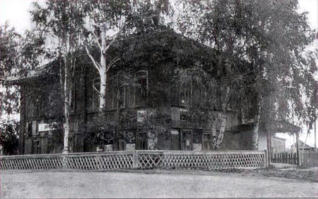 House of Konstantin Bratchikov